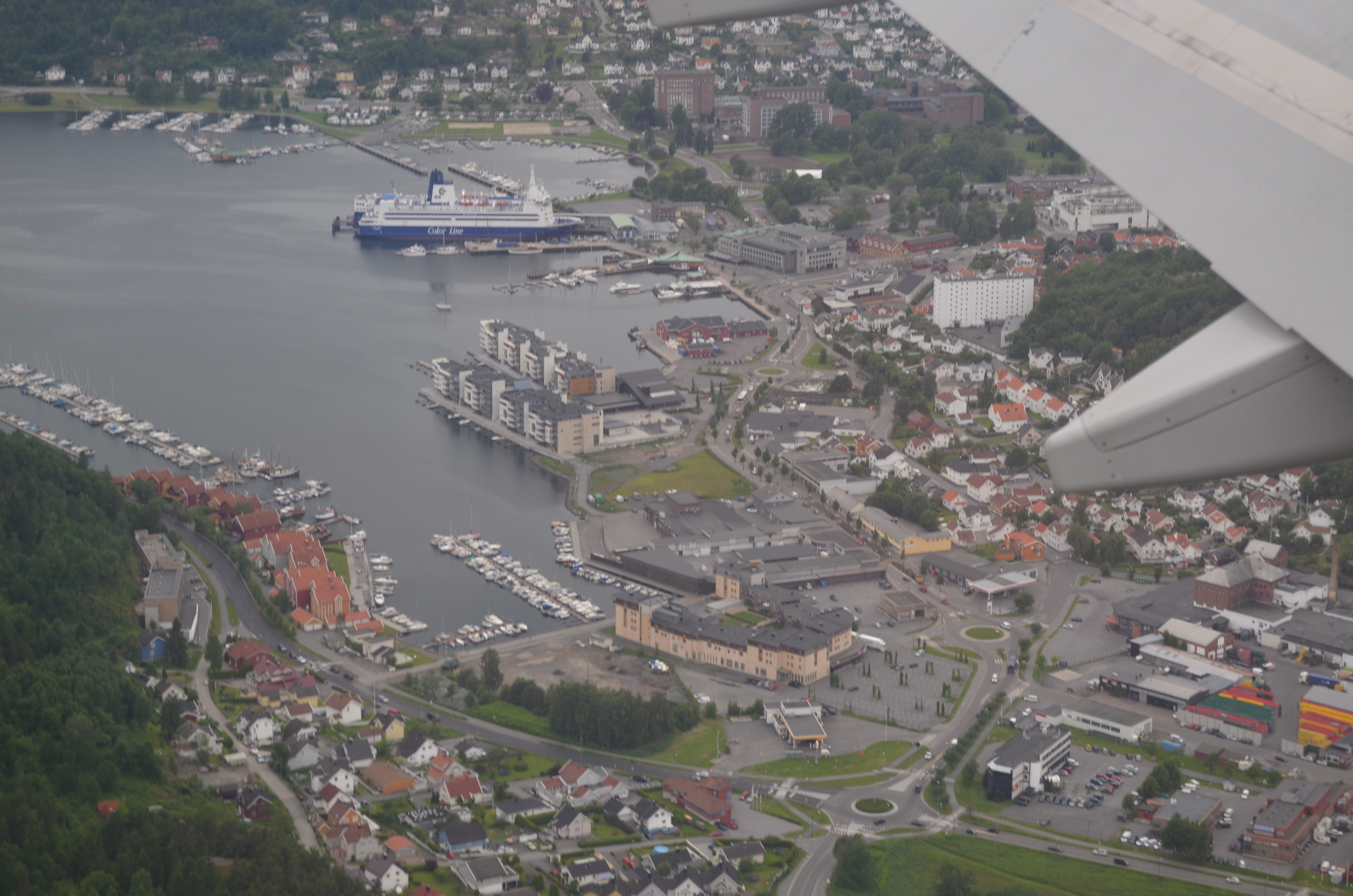 Aerial photograph of Sandefjord, Norway